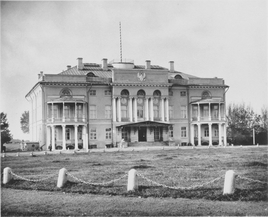 Plate 83. Alexandria palace, Neskuchny Garden, Moscow (former HQ of the Academy of Sciences of the USSR).